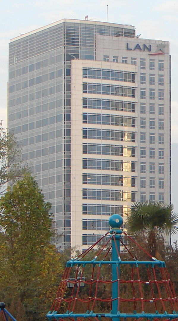 The headquarters of LAN Airlines and LATAM Airlines Group - 5711 Avenida Presidente Riesco, Las Condes, Santiago, Chile